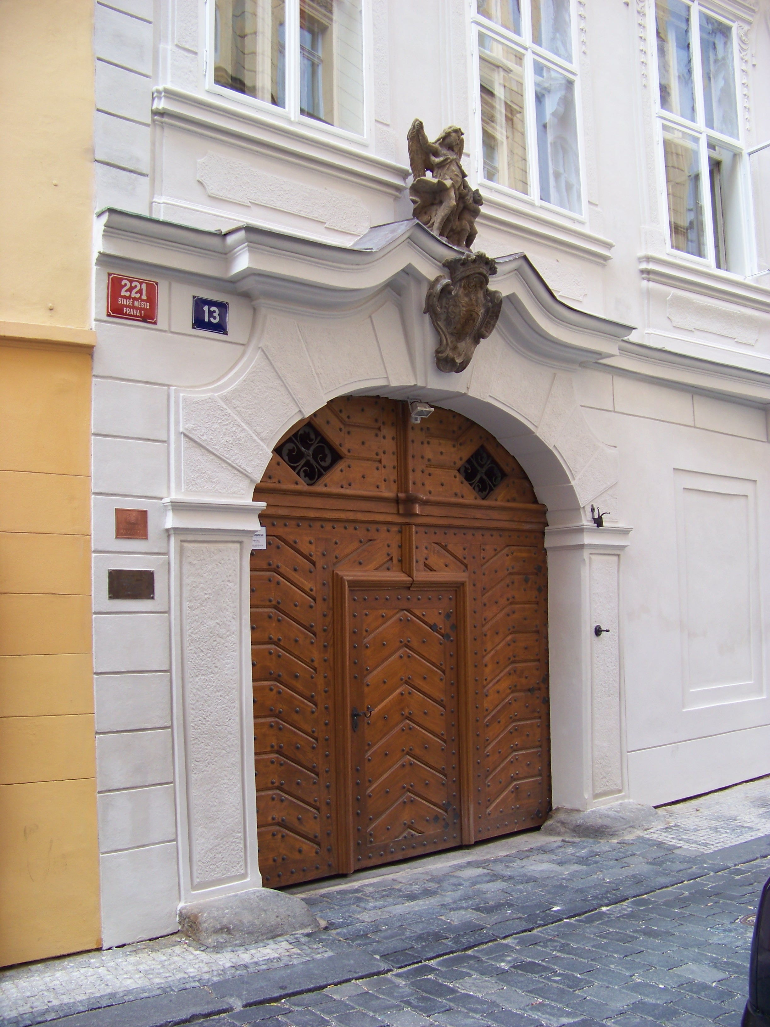 Prague-Old Town. Liliová 221/13. - Google Maps - Google Earth